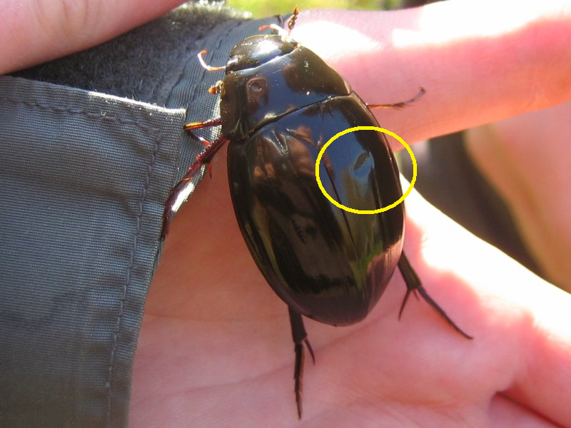 Water scavenger beetle, Hydrophilus piceus